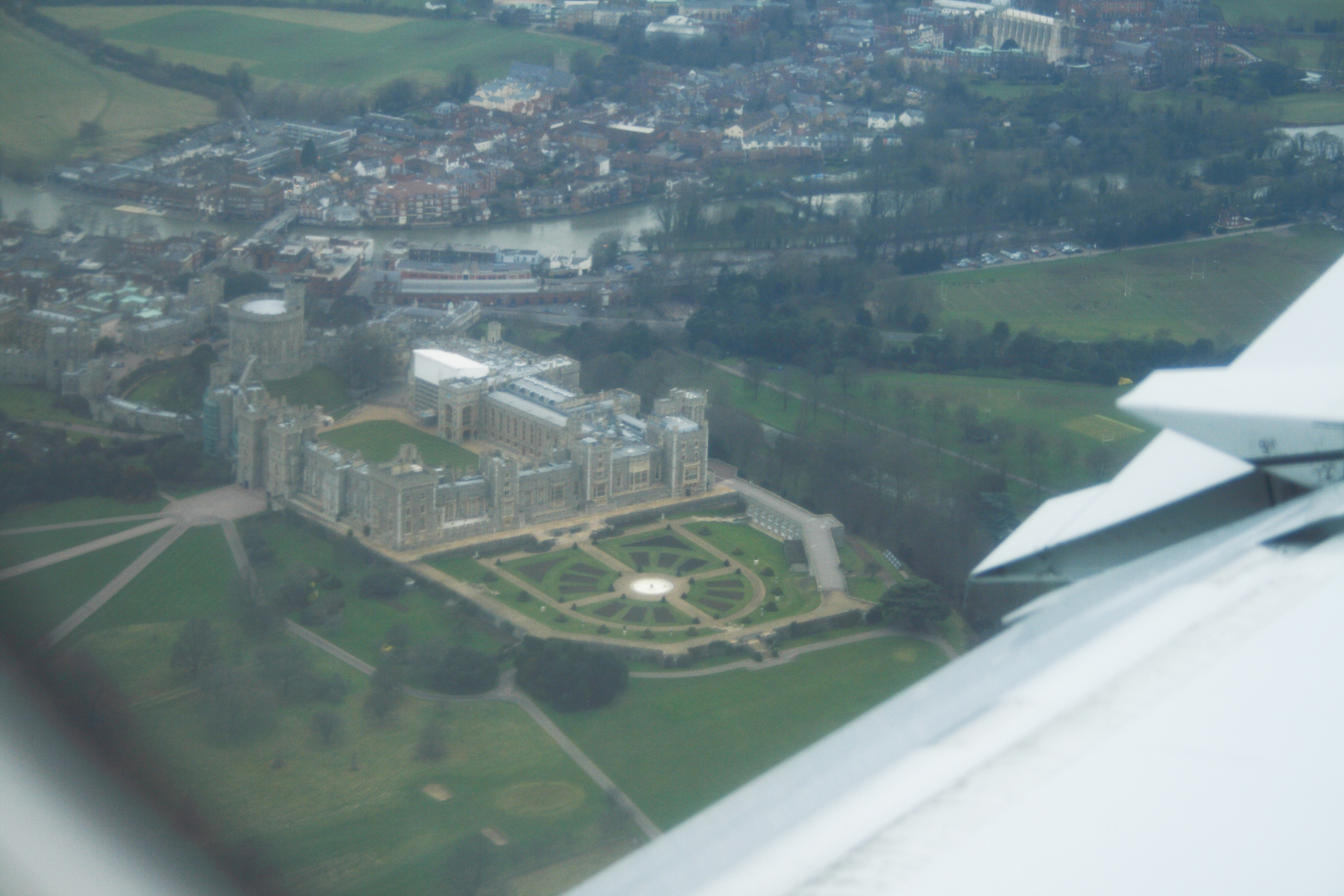 Aerial view of Windsor and Eton